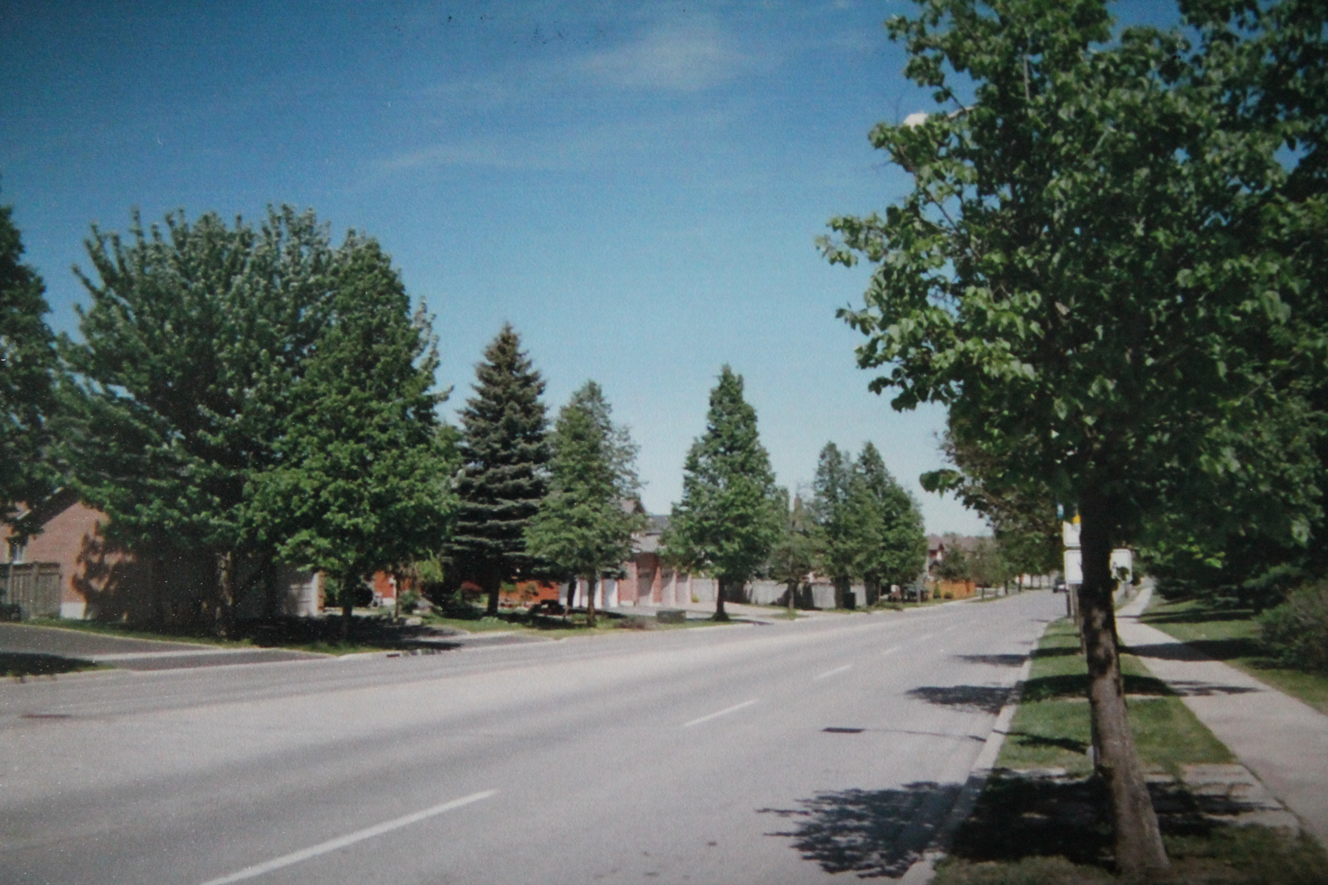 Rodick Road, facing east at Woodbine Avenue in Markham, Ontario, Canada.